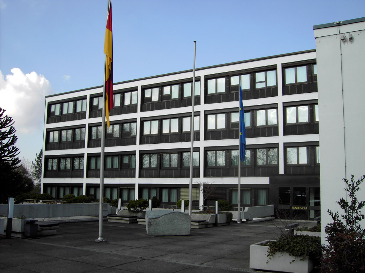 Branch office of Bundesrat (upper house of the German parliament) in the north wing of the former Parliament Building (Bundeshaus), Bonn